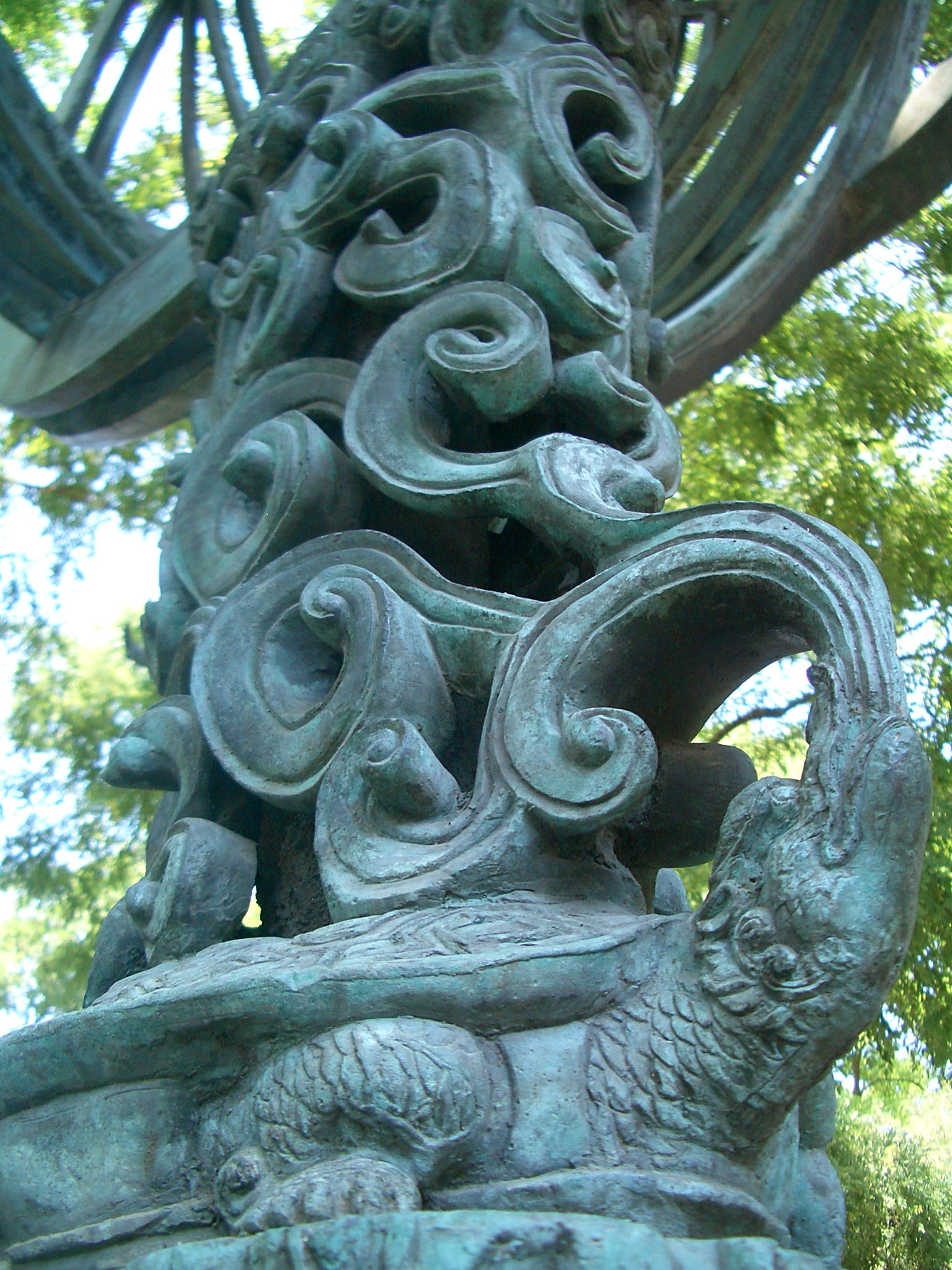 An armillary sphere, made in 1439, at Beijing Ancient Observatory. A round sphere above a square base (天圆地方!), it stands on a tortoise (reminding one, perhaps, of the Ao (鰲) turtle whose legs hold the sky in Nüwa's story!), and is supported from the 4 corners by dragons.